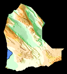 Dikhil RegionGeographyMap